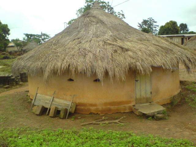 Vue de l'ancienne mosquée du village Gbogolo.